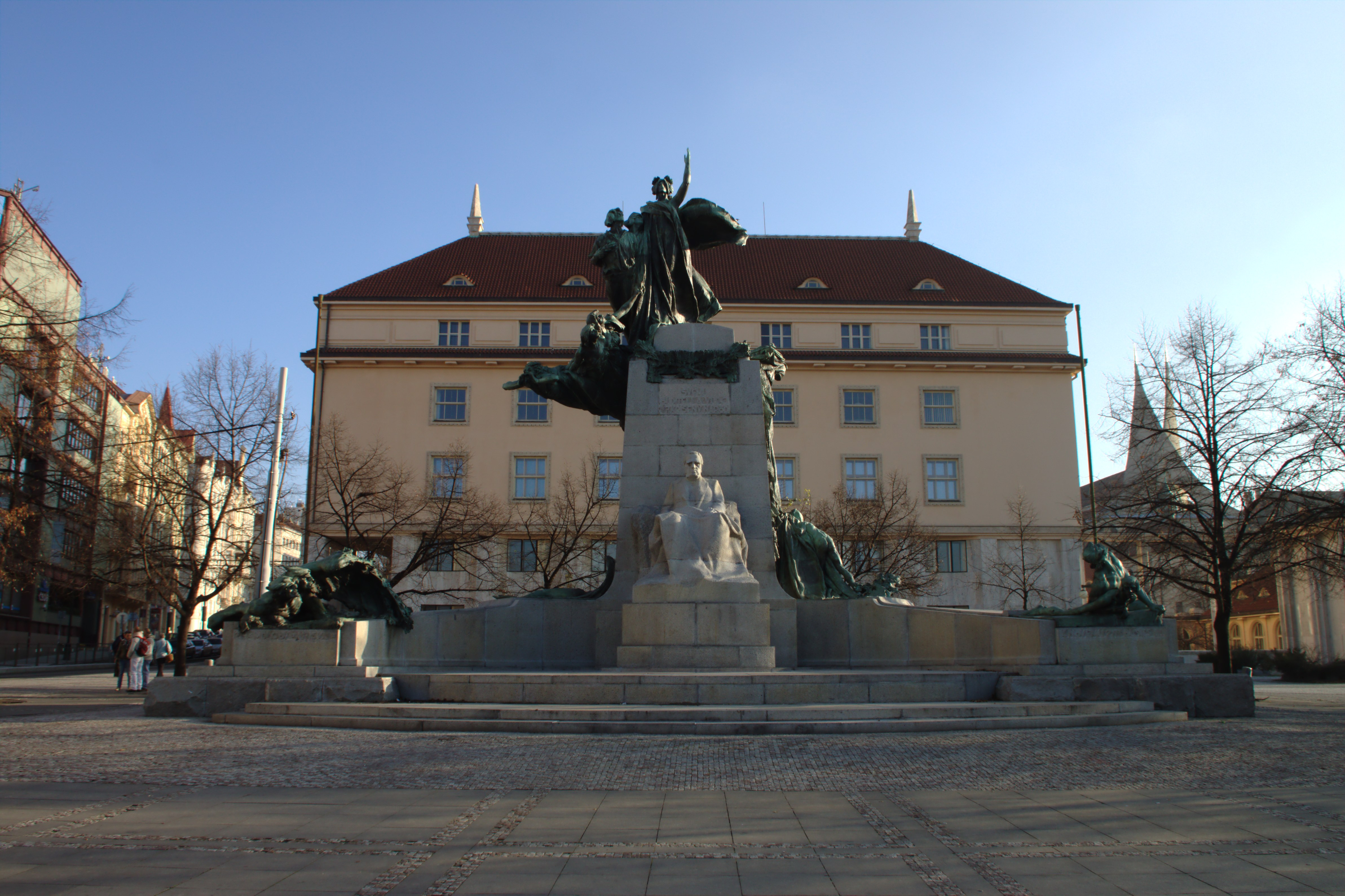 Renovated Palacký memorial in Prague, CZ